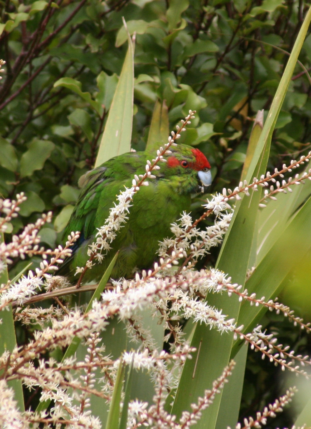 Red-crowned Parakeet Cyanoramphus novaezelandiae feeding on cabbage tree flowers Cordyline australis, Tiritiri Matangi Island